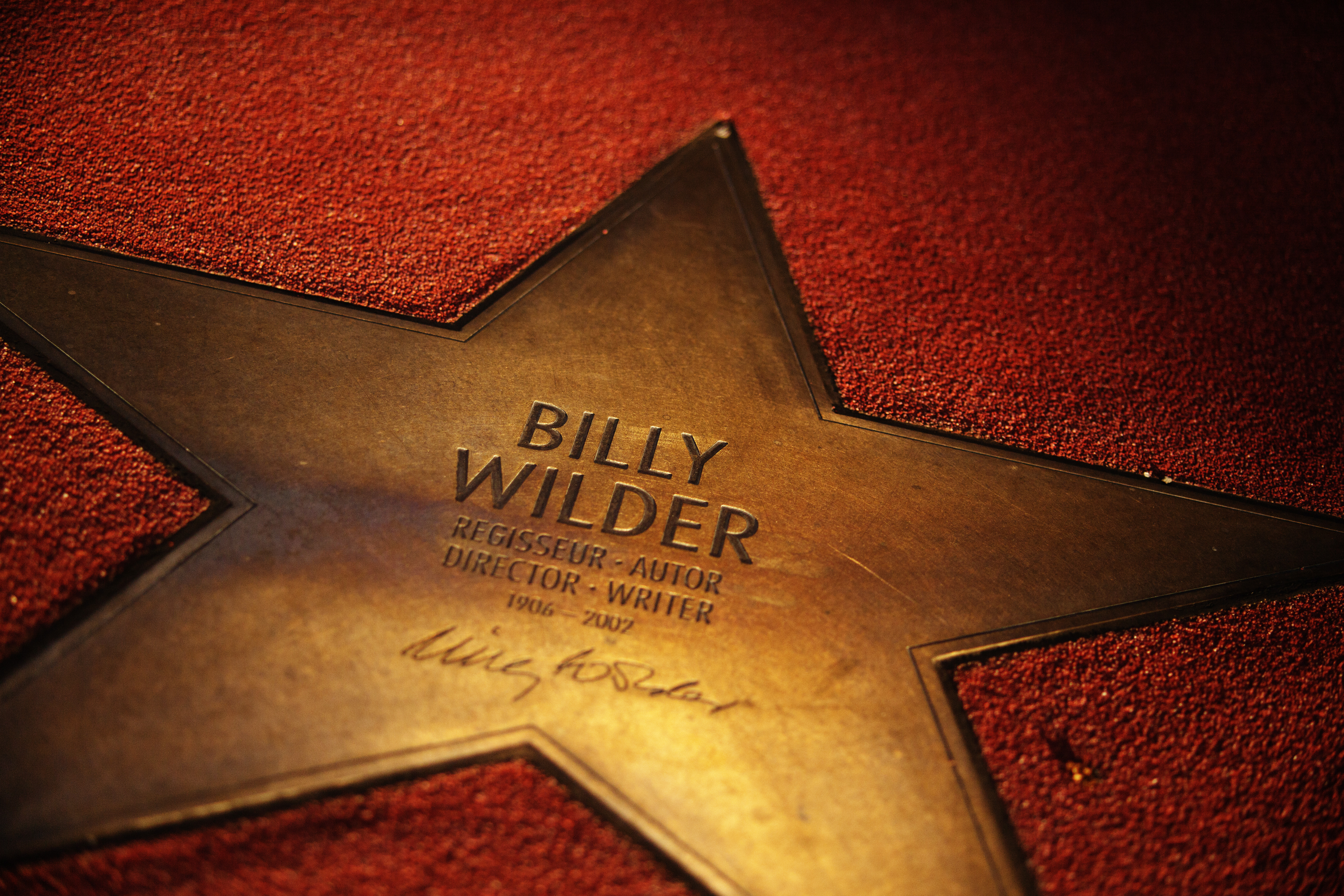 Star of Billy Wilder at the "Boulevard der Sterne" in Berlin